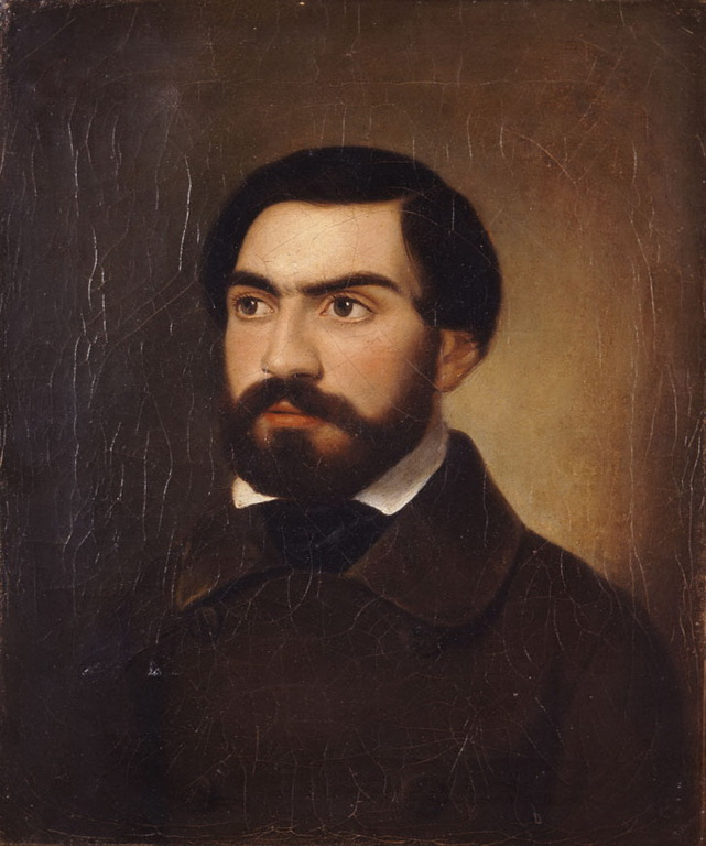 Portrait of man, 1847